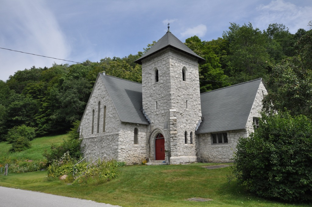 Mission of the Church of Our Savior, Killington, Vermont. The church.